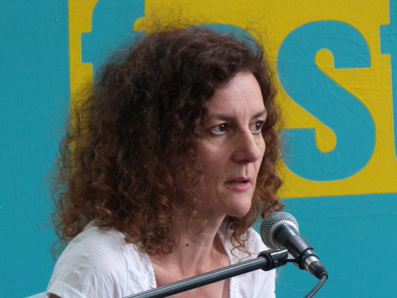 German writer Dea Loher at the Erlanger Poetenfest 2012